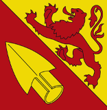 Blazon of Schlatt, Canton of Thurgau, Switzerland